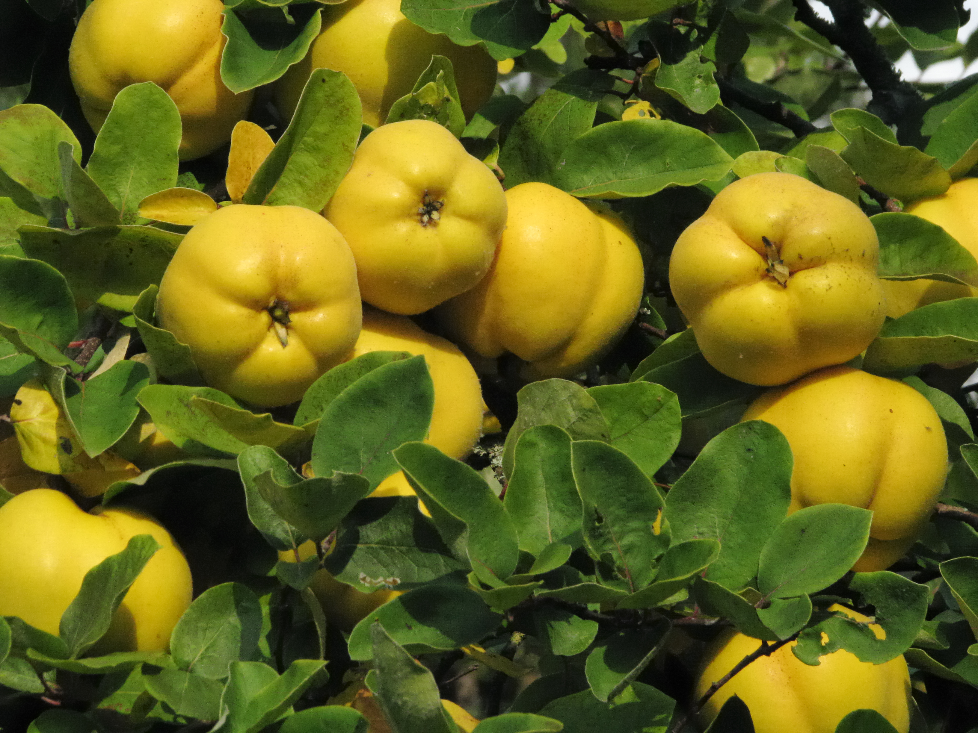 Quinces (cydonia oblonga), Sipplingen-Süßenmühle, district Bodenseekreis, Baden-Württemberg, Germany